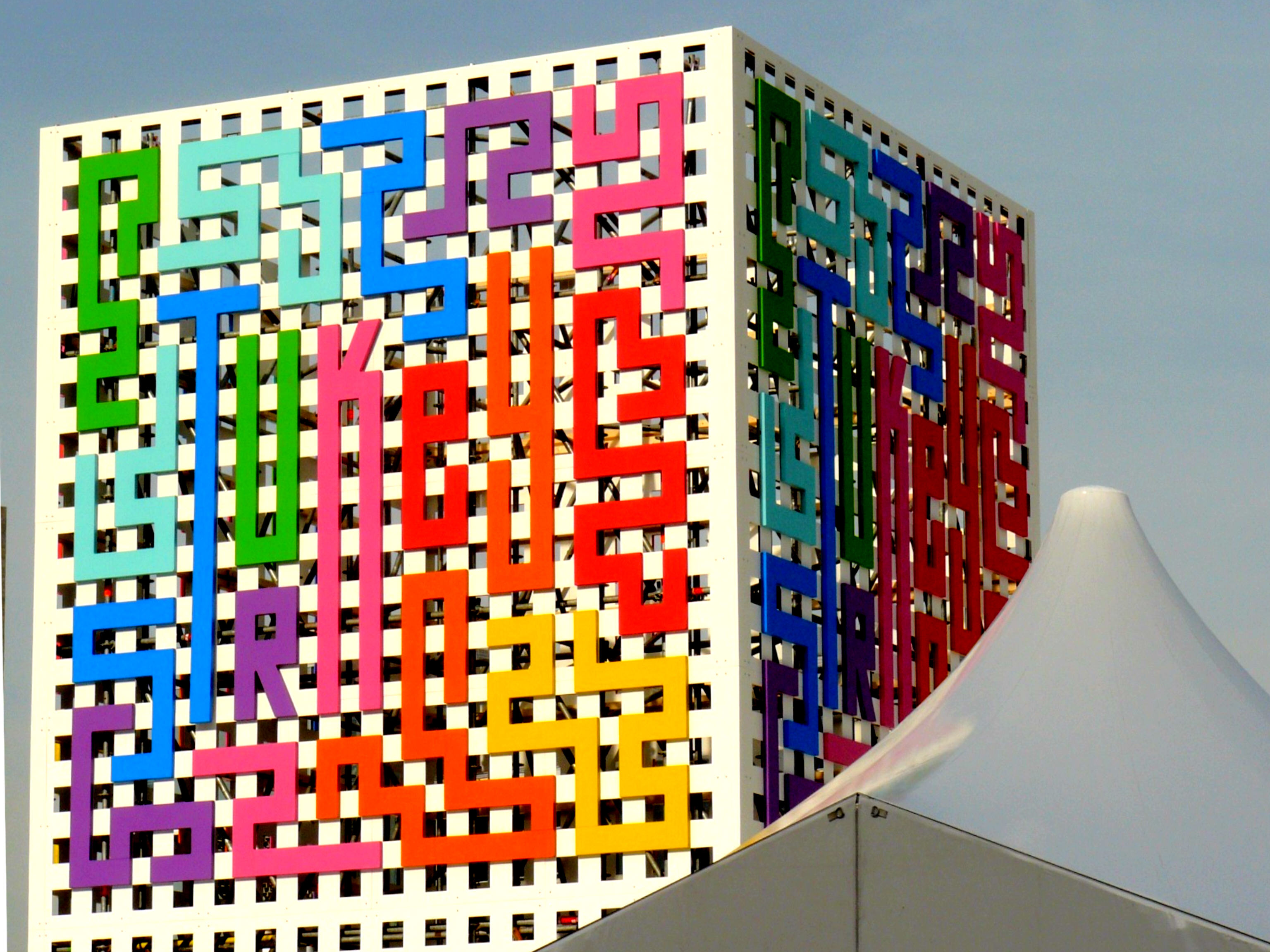 Frankfurt Book Fair 2008, Guest Nation Pavilion - Turkey